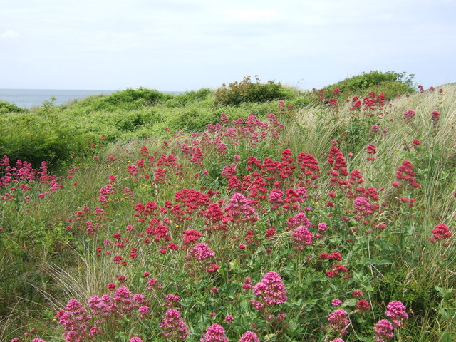 Red Valerian on The Bennett, Newport, Pembs. This area of sand dunes adjacent to the beach supports an interesting flora including at least two species of orchid. Red Valerian, originally a garden plant, can be seen around most local dwellings.